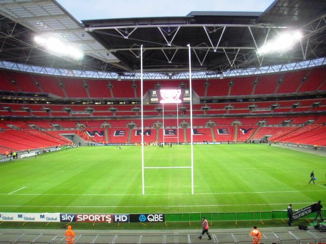 "Wemberley.......Wemberley" As my football team failed to make it to Wembley again (only one visit in 1975 - there's the clue), this is my first proper visit old or new to the National Stadium except for a greyhound meeting in 1997. But this was for a domestic club rugby union match between Saracens & Worcester, even with the crowd of almost 41,000 it was still less than half full. Even though Saracens are based at Vicarage Road, they do play some of their home games here. A truly stunning ground nonetheless. For the record - Saracens 25pts v Worcester 22pts.